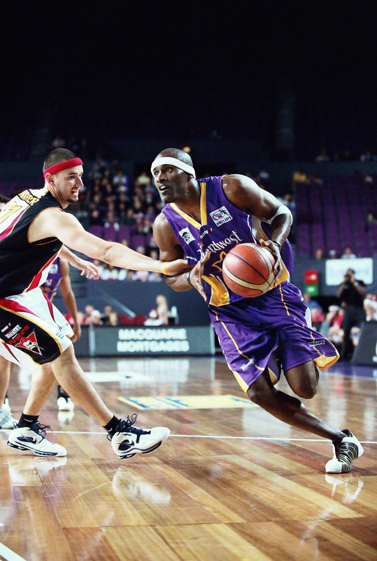 Mark Sanford, the American basketball player.